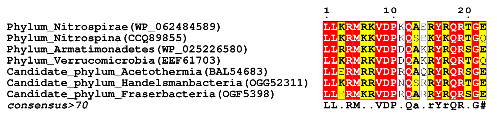 UBact C-terminus is conserved across several bacterial phyla.